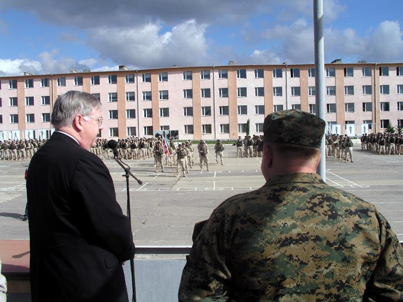 Ambassador Tefft addresses members of Georgia's Shavnabada13th Light Infantry Battalion at Vaziani Military Base.